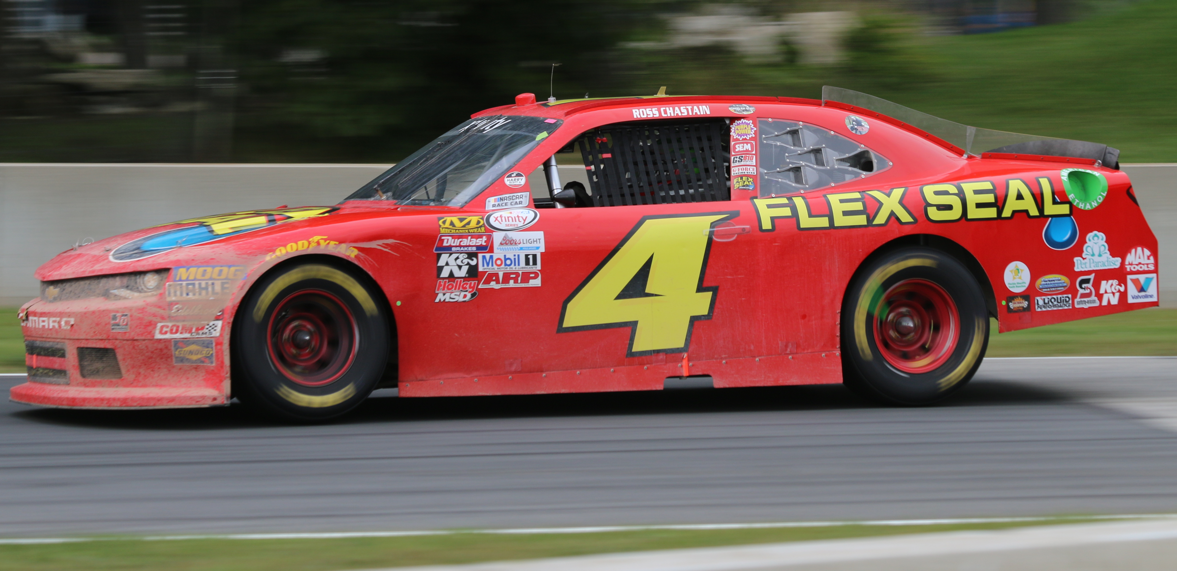 The Chevrolet Camaro of Ross Chastain at the NASCAR Xfinity Series Johnsonville 180.